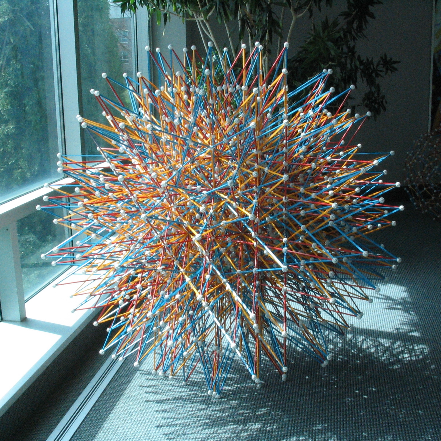 This is a photograph of a Zome model of the great grand stellated 120-cell, also known as the final stellation of the 120-cell. The model was constructed on March 24, 2007, by a group of about 40 people, mostly students, at the Lee Honors College of Western Michigan University. I directed this project.